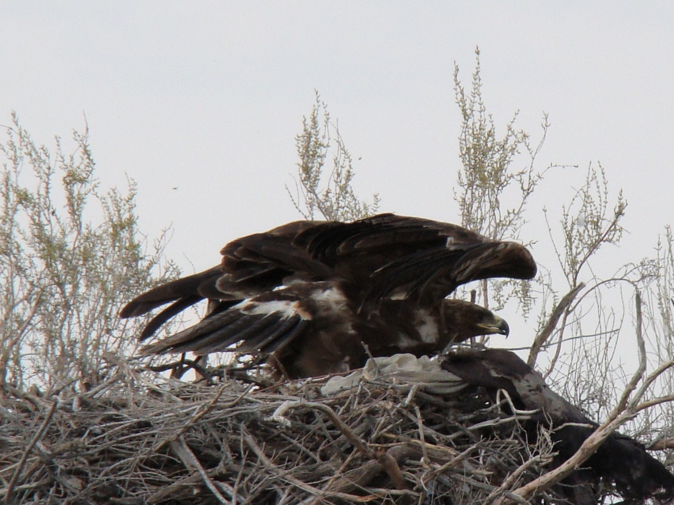 Steppe Eagle Aquila nipalensis in the nest. 11 km to south from Baikonur-town, Kazakhstan